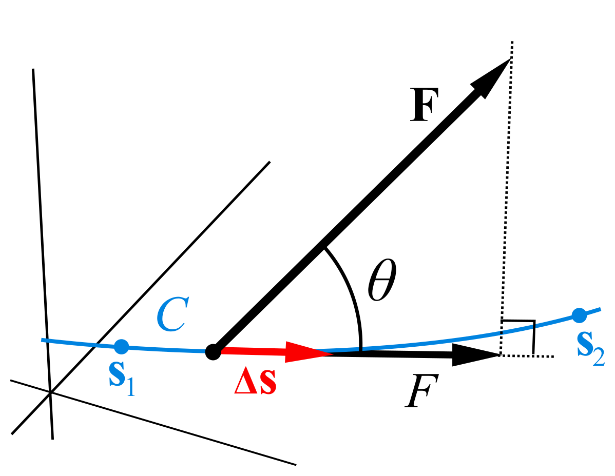 Work (physics)